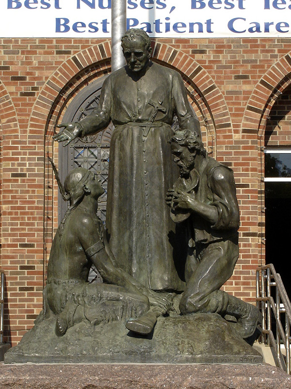 Statue of Francis Xavier Pierz in front of St. Cloud Hospital, St. Cloud, Minnesota, United States.